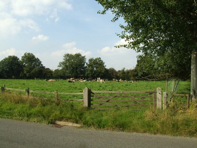 Do cows know if it's going to rain? Cows in a field at Stibbard. The weather lore of "when cows are lying down in a field, rain is on its way" was proved incorrect.